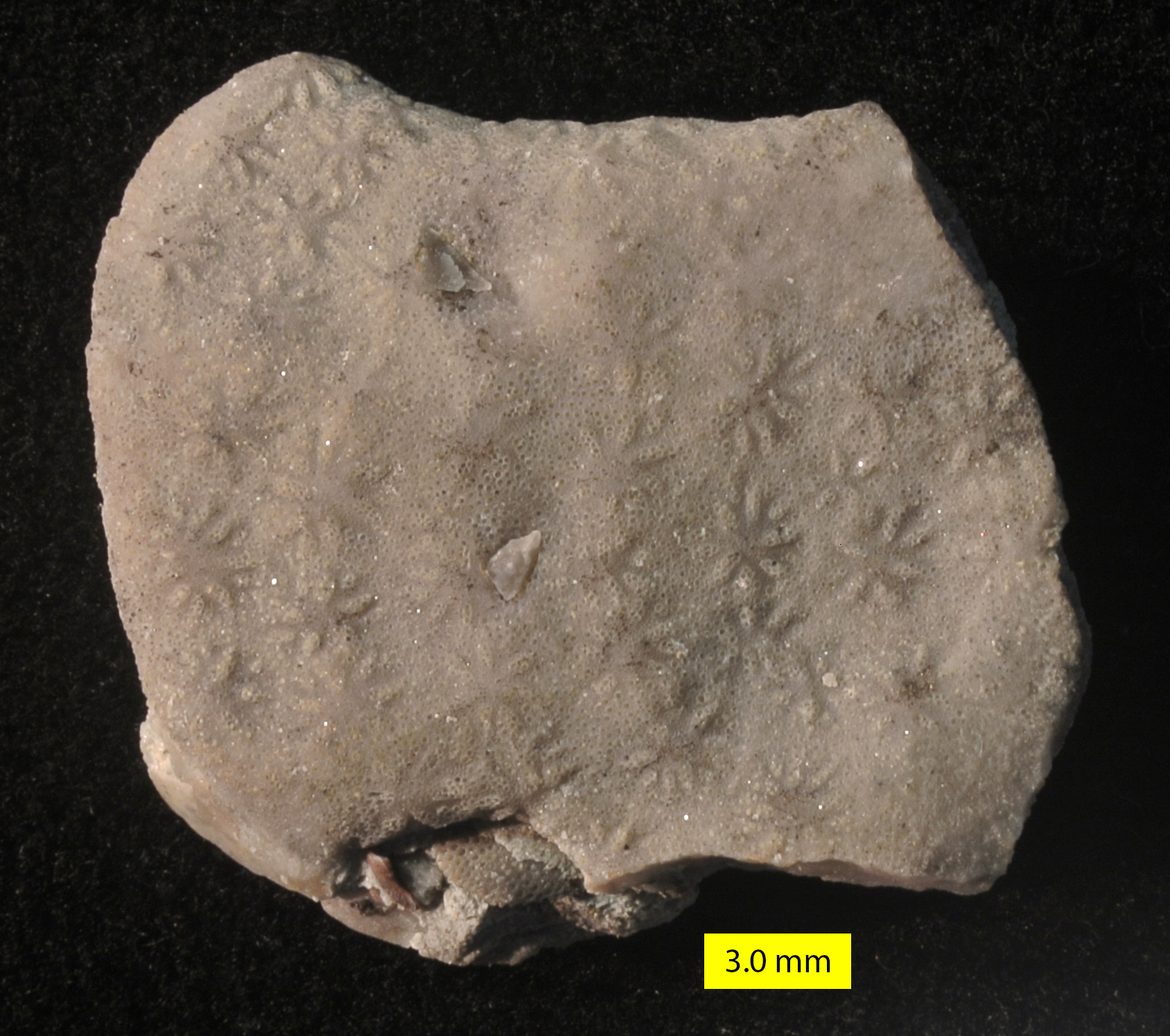 Constellaria polystomella from the Liberty Formation, Caesar Creek Lake, Ohio.